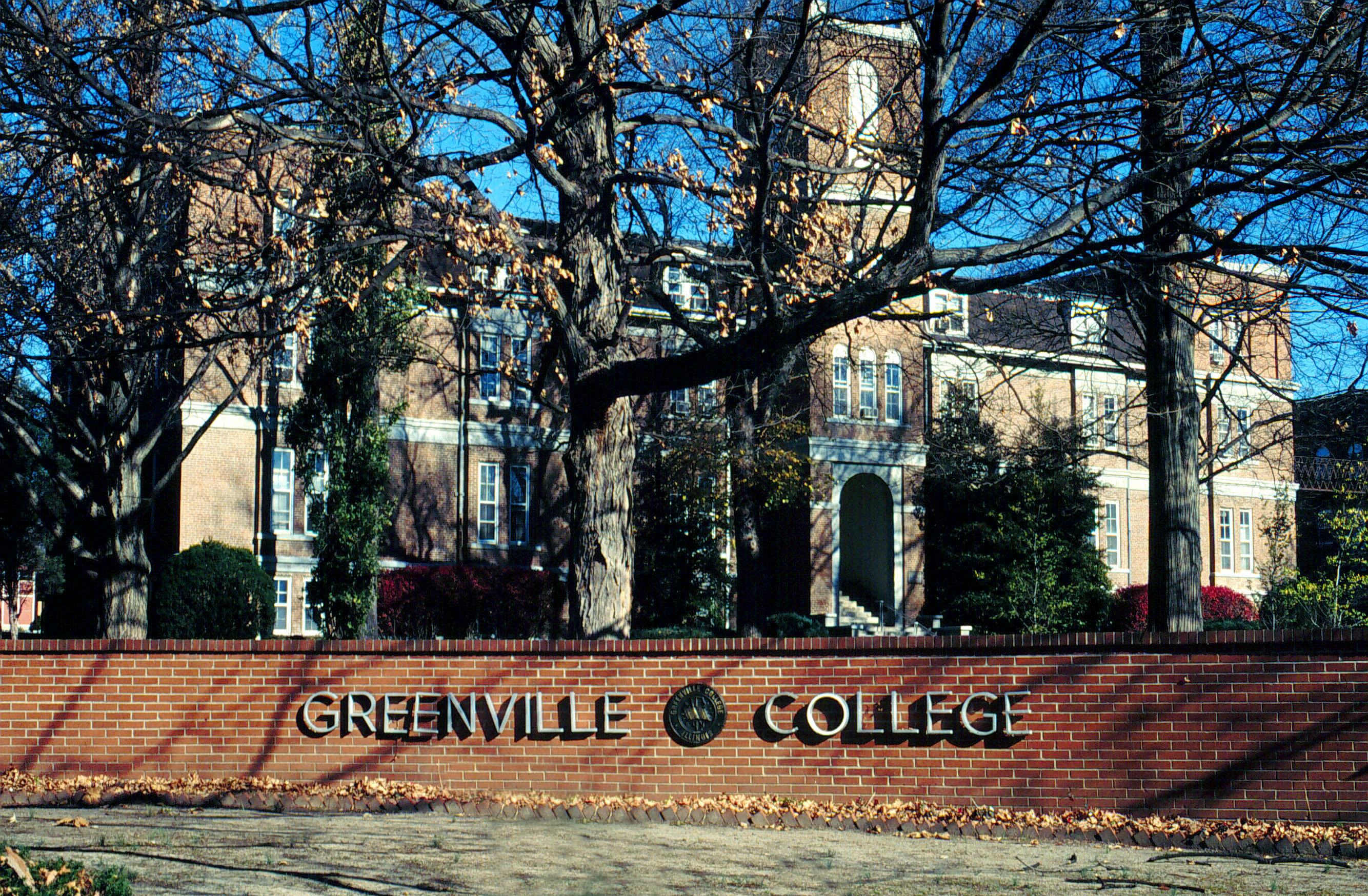 Greenville College in Greenville, Illinois. This is Hogue Hall, which is listed on the National Register of Historic Places in Illinois; it was demolished in 2008 because of irreparable structural issues.